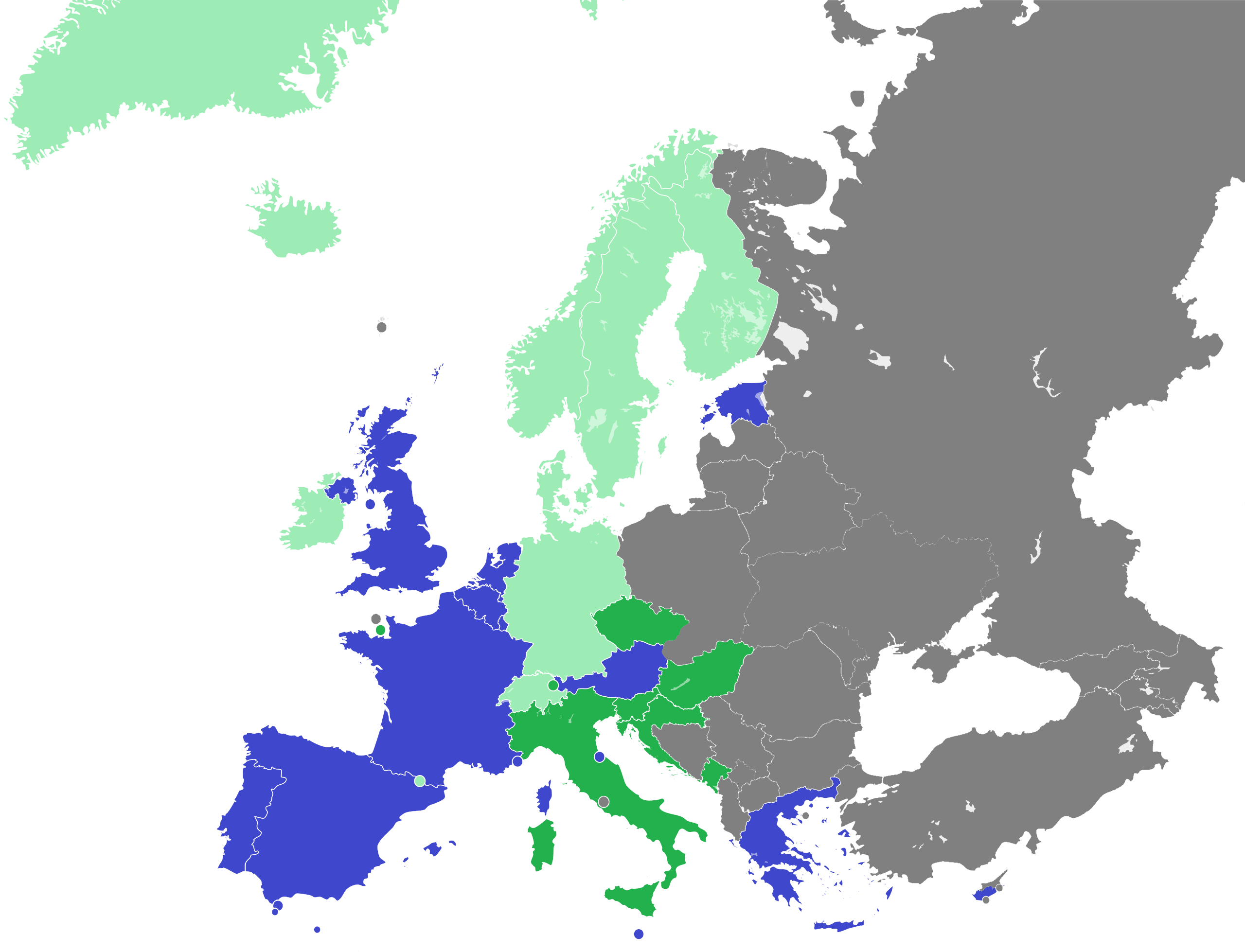 English (en): Countries performing1 civil unions in Europe Gender-neutral civil unions Civil unions only for same-sex couples Used to perform civil unions only for same-sex couples Civil unions not performed 1Might exclude countries and/or territories that recognize civil unions performed elsewhere.